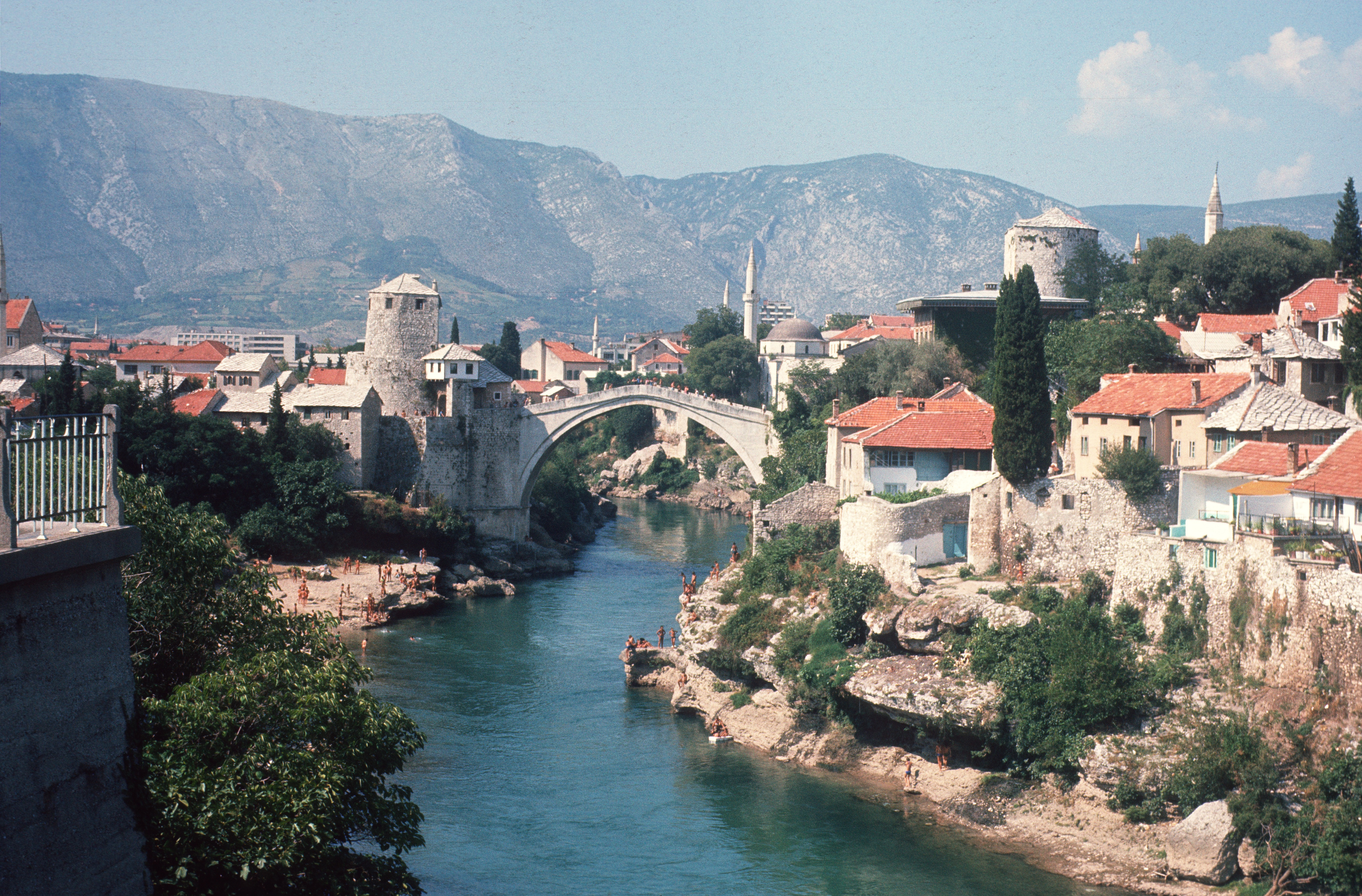 Stari Most Bridge in Mostar, Photo taken August 1974